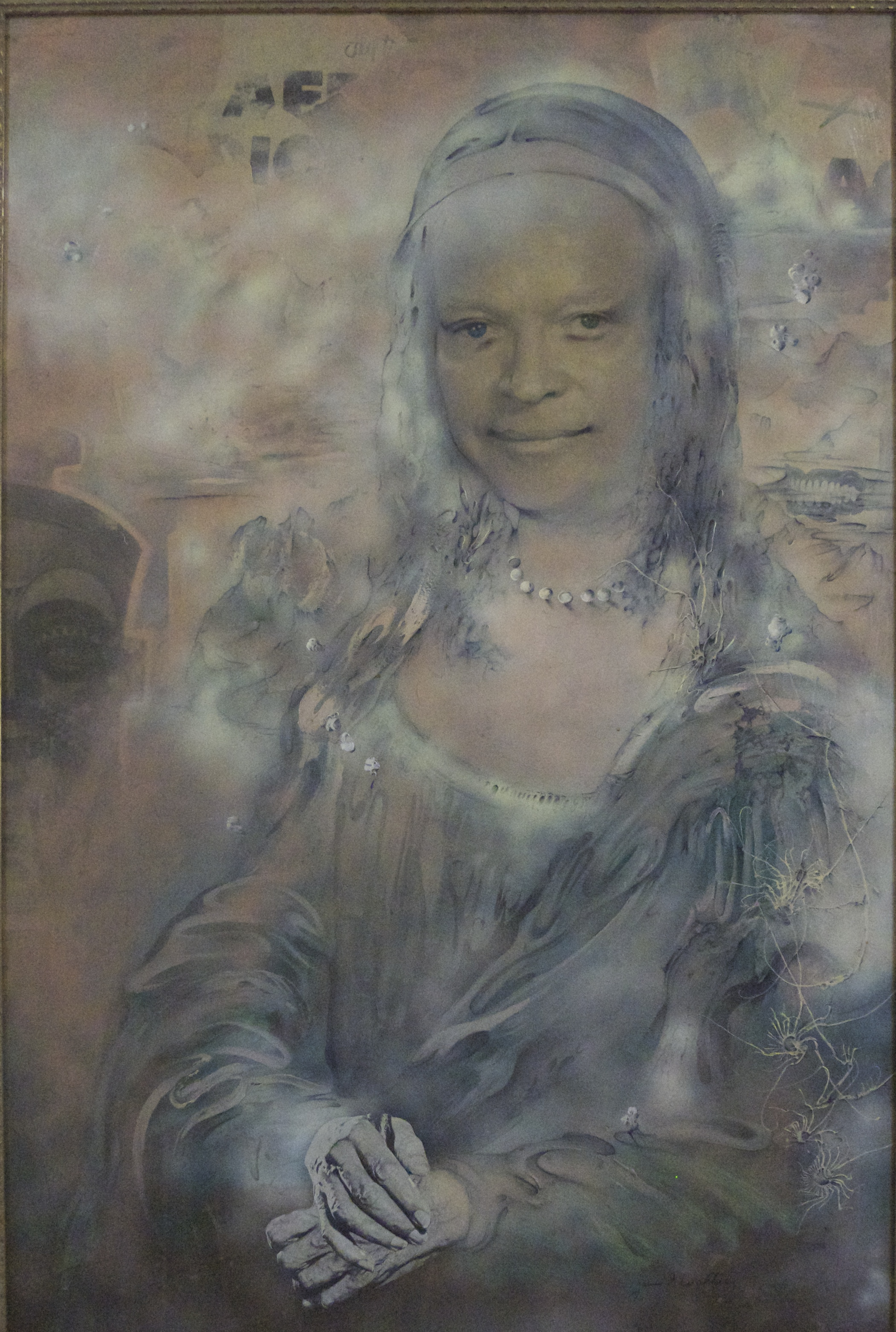 "L. H. Double O. Q." is James F. Walker's portrait of Dwight D. Eisenhower, an award winning entry in the 1964 Art